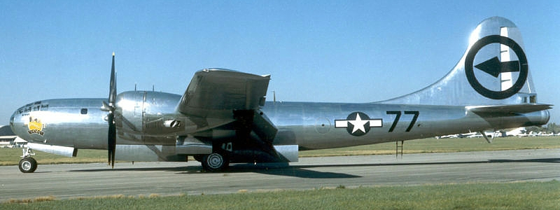 Cropped version of Image:Boeing_B-29_Superfortress_Bockscar_2_USAF.jpg